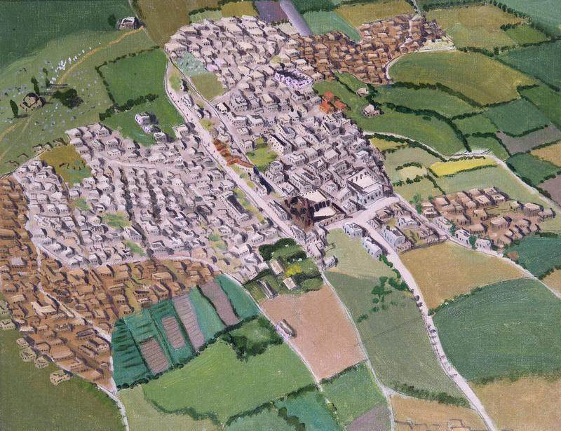 Gaza Seen From the Air, Over British Lines on Ali Muntar Hill Looking Towards the Sea image: An aerial view of the city of Gaza, which is surrounded by largely green fields.